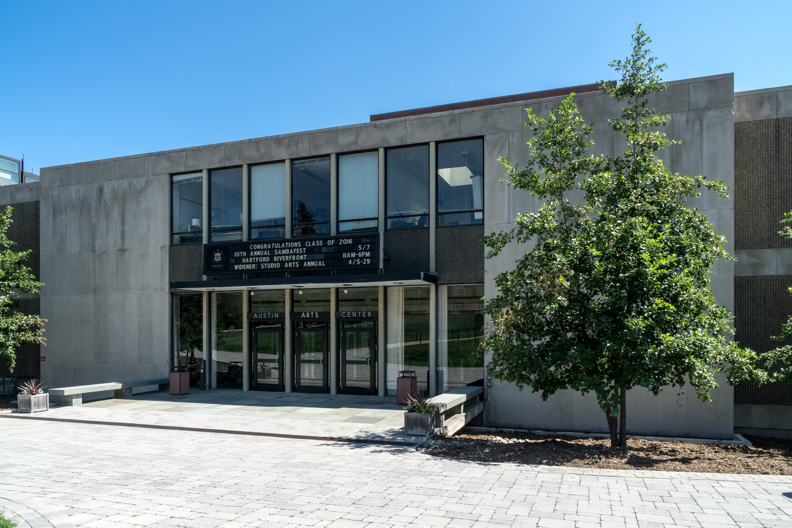 Trinity College, Hartford, Connecticut